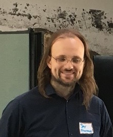 Jay Freeman in 2016 at one of the Isla Vista Community Center outreach events held in the St. George Family Youth Center, Isla Vista, California